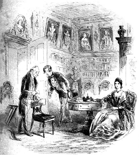 The old man of the name of Tulkinghorn Phiz (Hablot K. Browne) 1853 Etching 4 5/8 x 4 1/8 inches on a page of 8 7/16 x 5 inches Facing p. 331 (ch. 33, "Interlopers") of Dickens's Bleak House